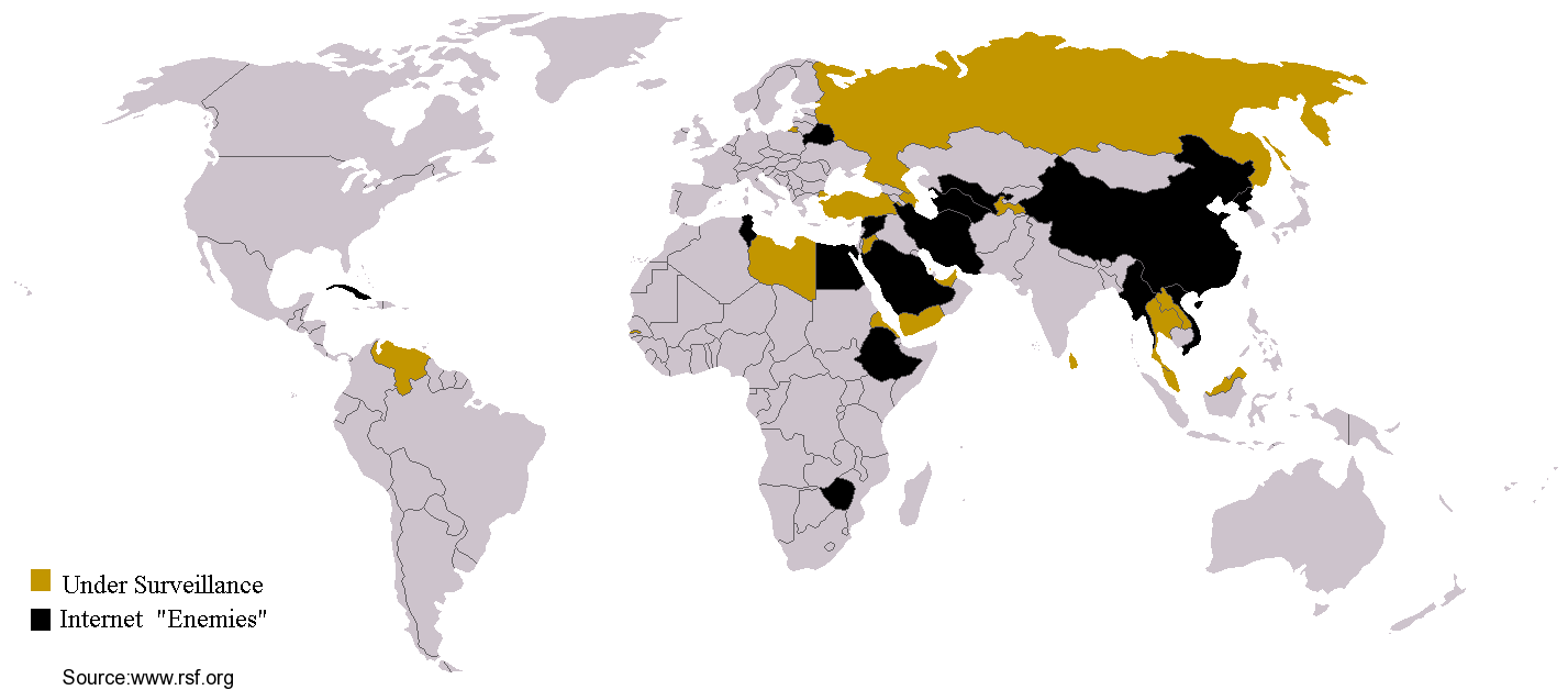 Obstacles to the free flow of information online